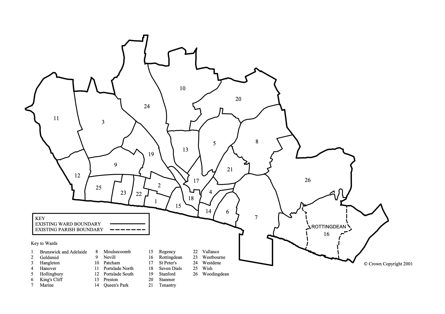 Old boundaries of Brighton and Hove Borough Council